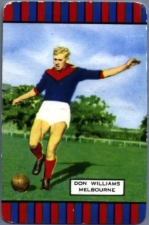 Photo of Don Williams taken in 1954